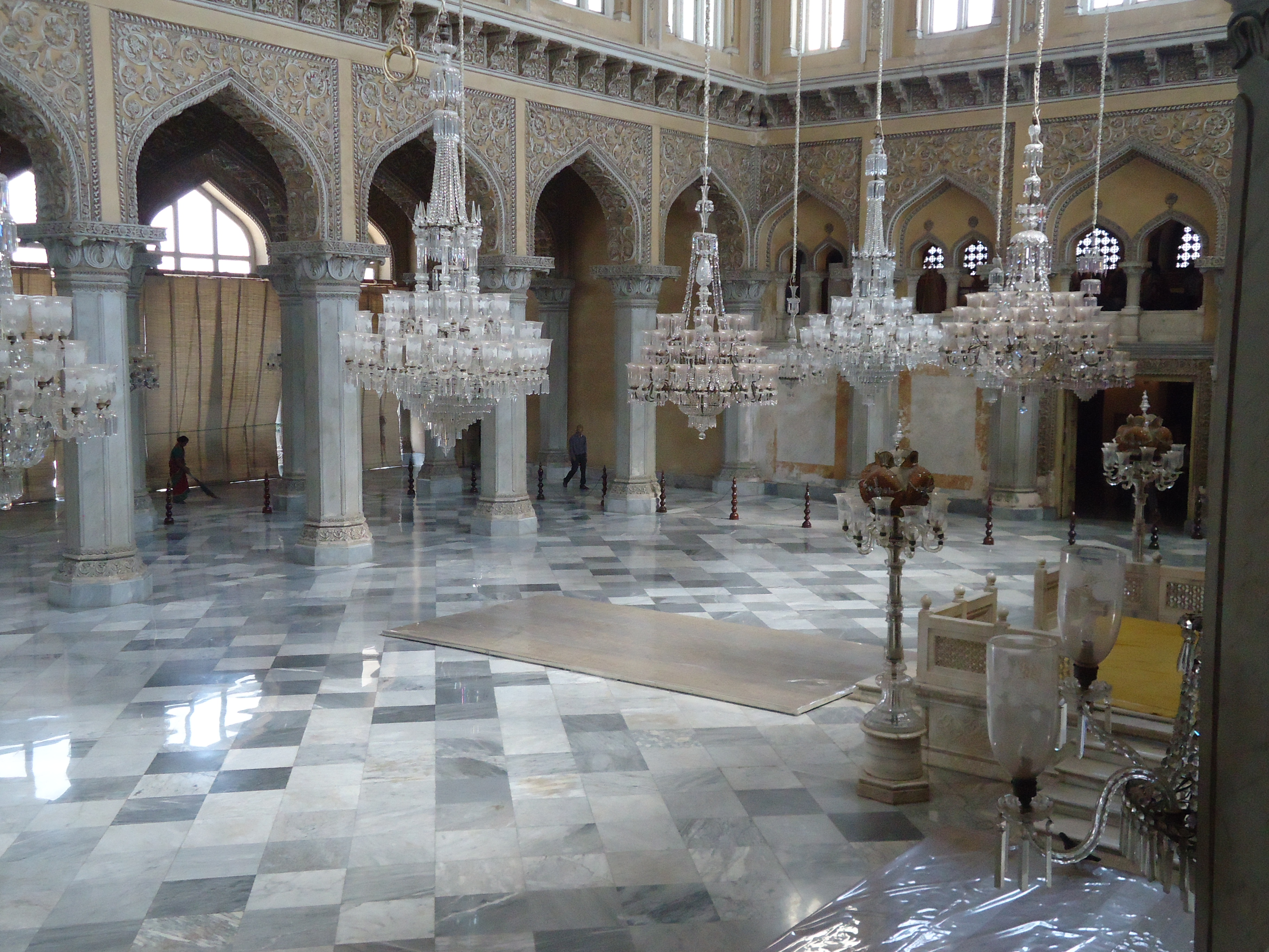 Inside Chomohalla palace, Hyderabad, India